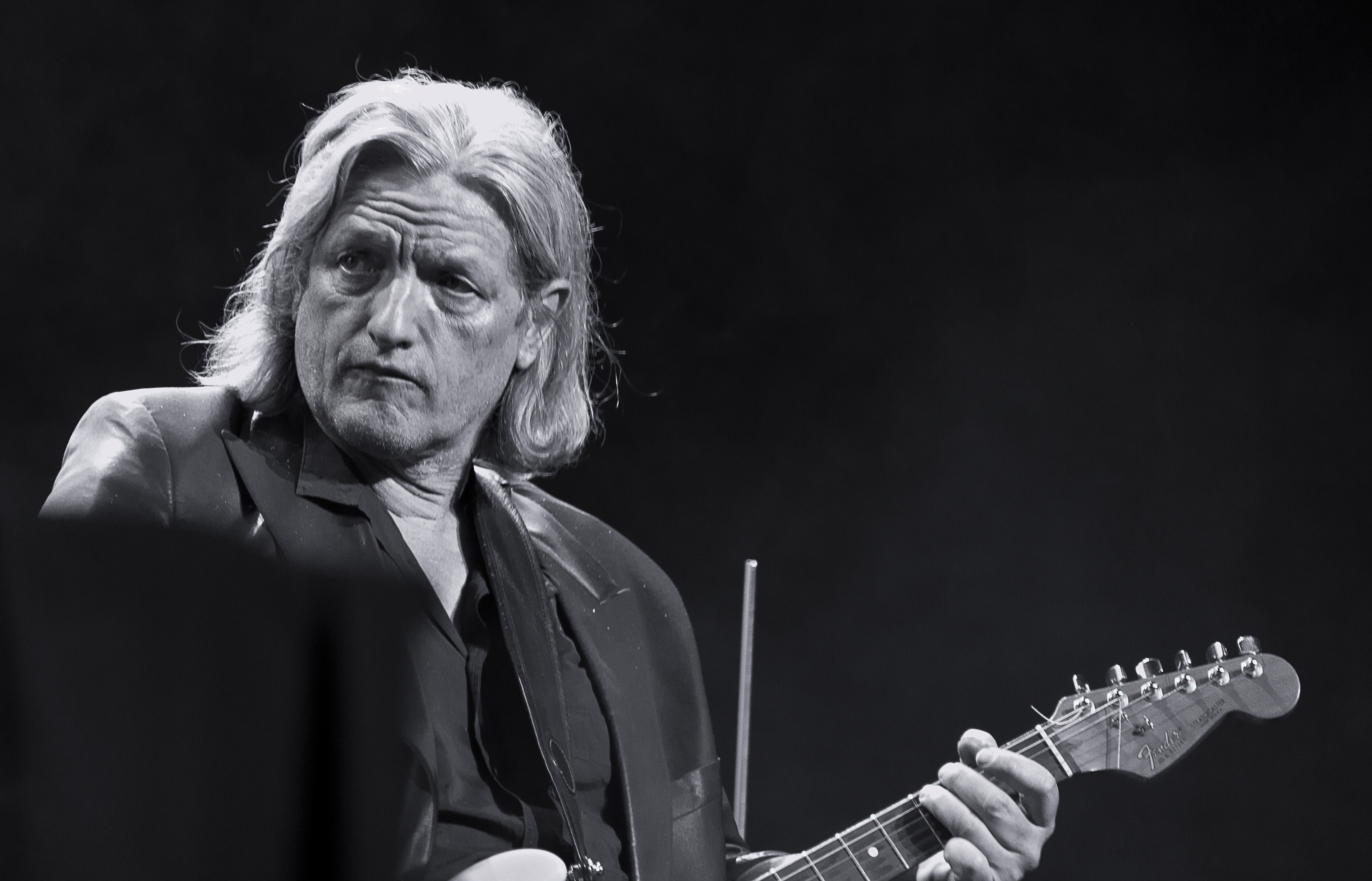 The German medieval electro band Qntal at the Wave-Gotik-Treffen 2015 in Leipzig/Germany.